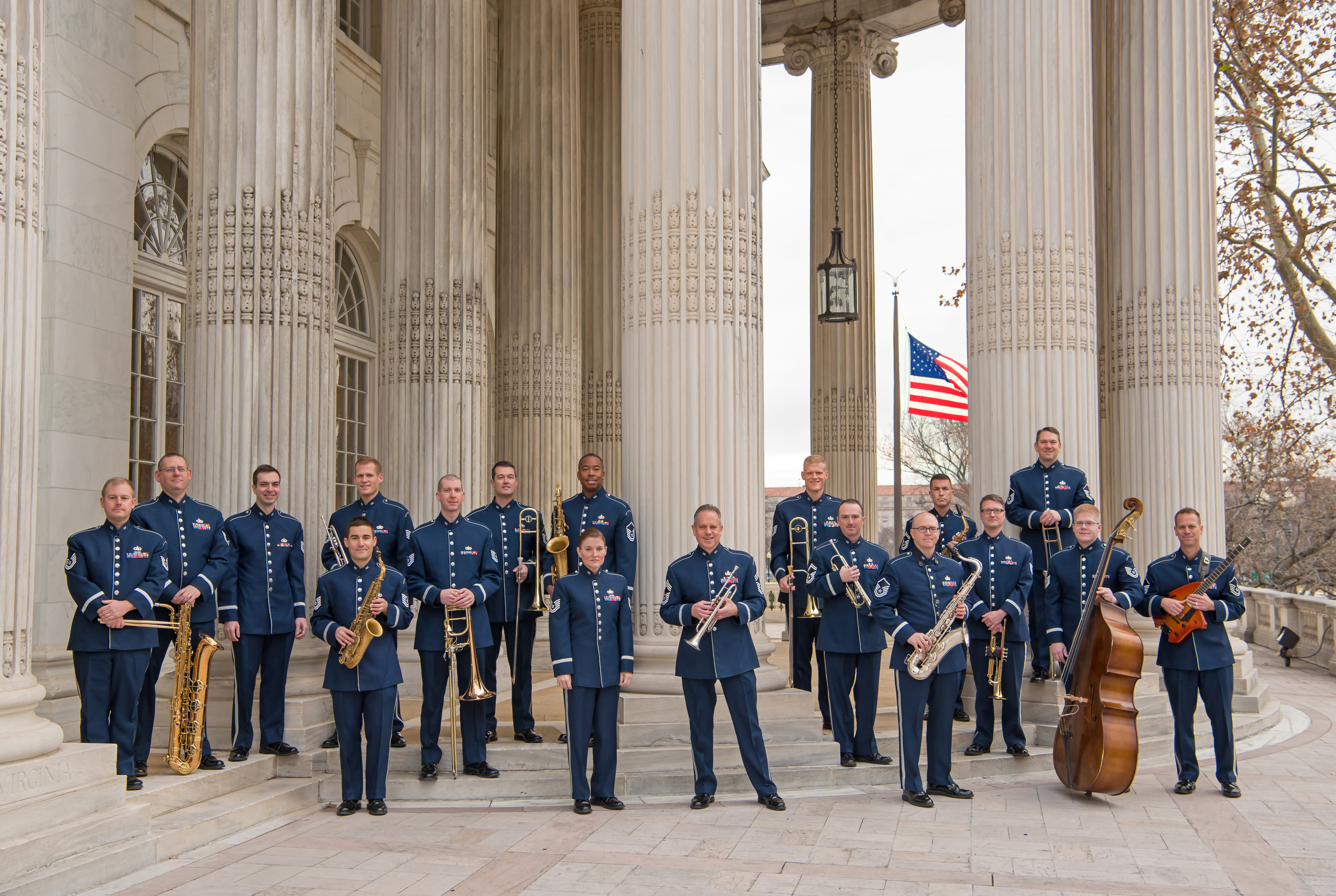 Pictured here outside DAR Constitution Hall in Washington, DC